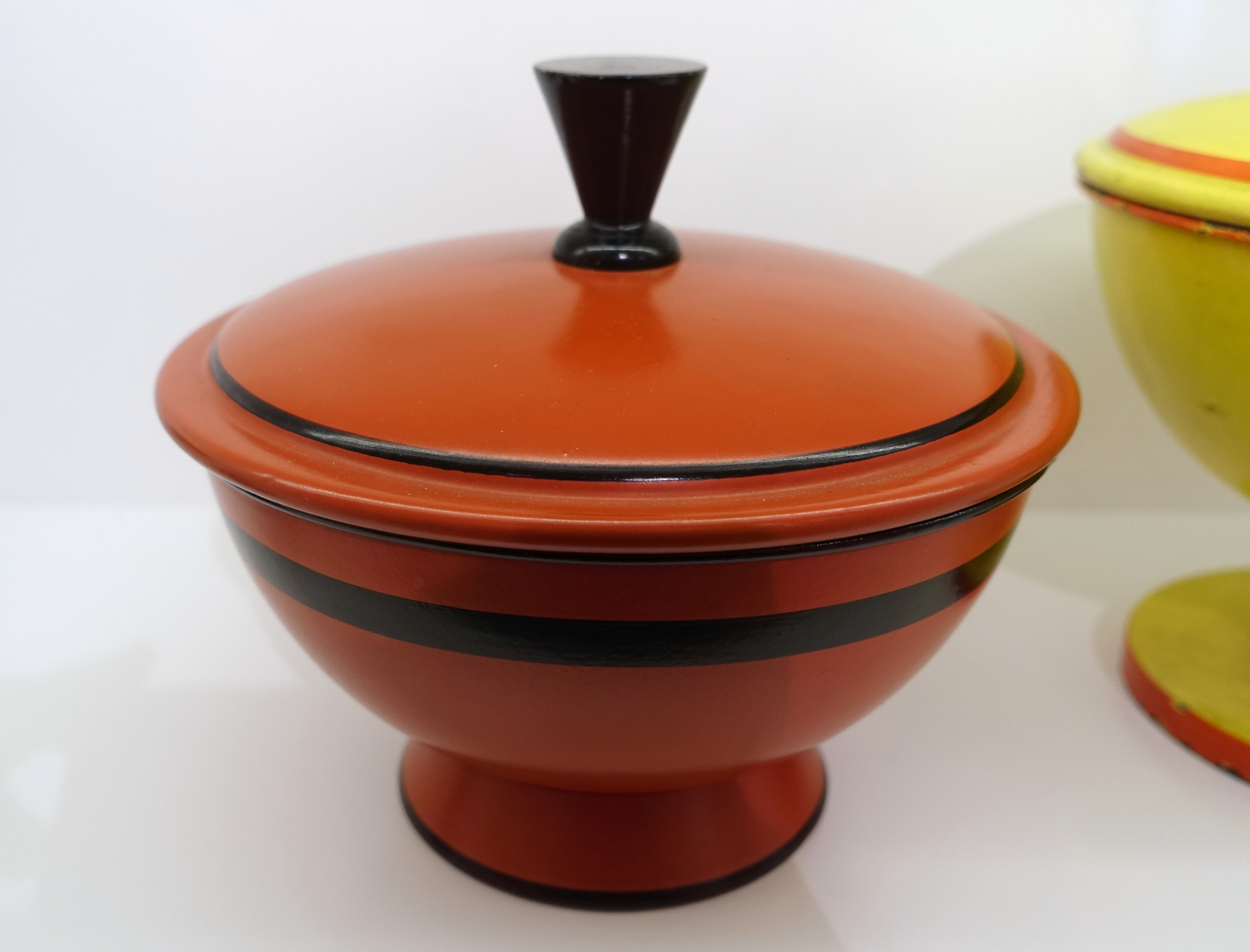 Two jars by Marianne Brandt, 1 of 2, Metallwarenfabrik Ruppel, Gotha, Germany, 1930, lacquered sheet iron. Exhibited in the Museum für Angewandte Kunst Köln - Cologne, Germany. As a utilitarian object, this work is NOT subject to copyright laws. Instead, it may have once been covered by a German registered design (Geschmacksmuster), which covered the ornamental aspects of utilitarian objects, and lasted twenty-five years from the date of grant. See Geschmacksmuster. This protection period has passed, and hence this work is now in the public domain.